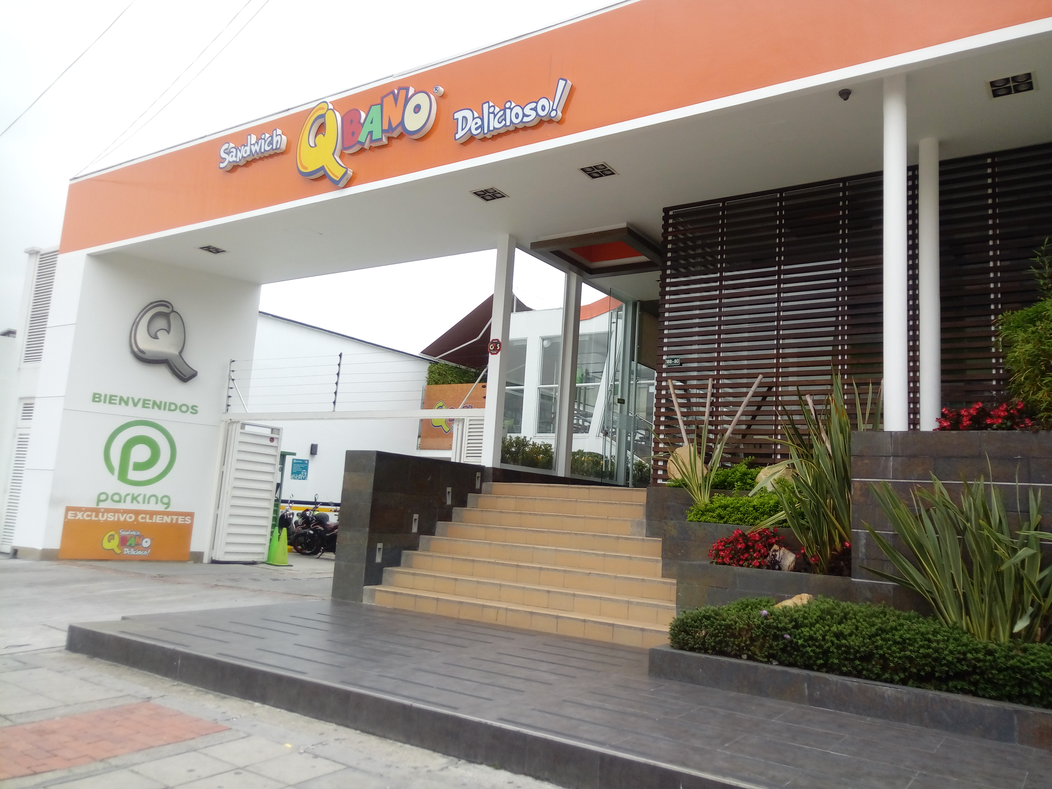 jjjjjjjjjjjjjjjjjjjjjjjjjjjjjjjjjj